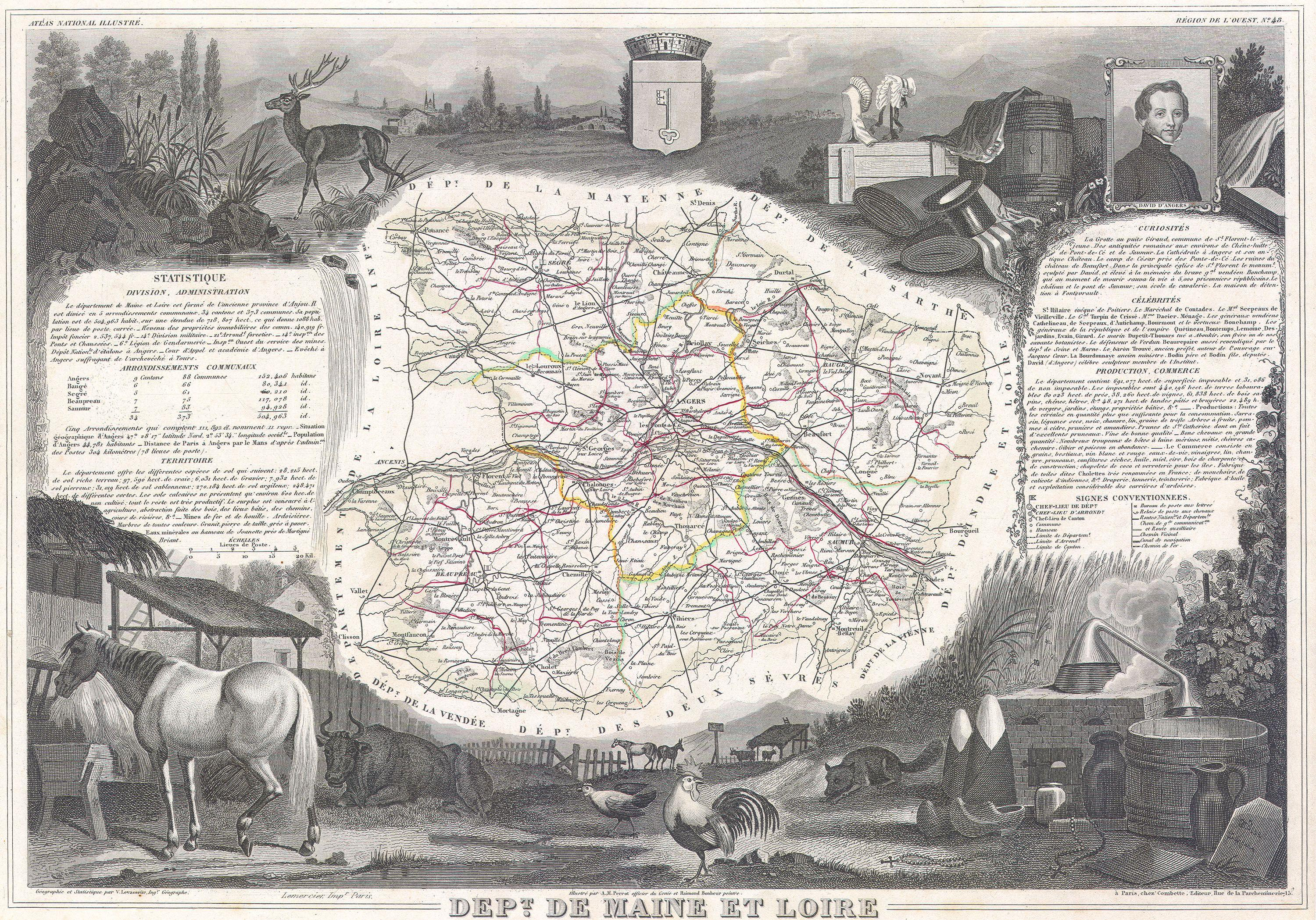 This is a fascinating 1847 map of the French department of Maine et Loire. This regions is known for its agriculture, distilled spirits, wines, and fine hunting. The capital is Angers. The whole is surrounded by elaborate decorative engravings designed to illustrate both the natural beauty and trade richness of the land. There is a short textual history of the regions depicted on both the left and right sides of the map.